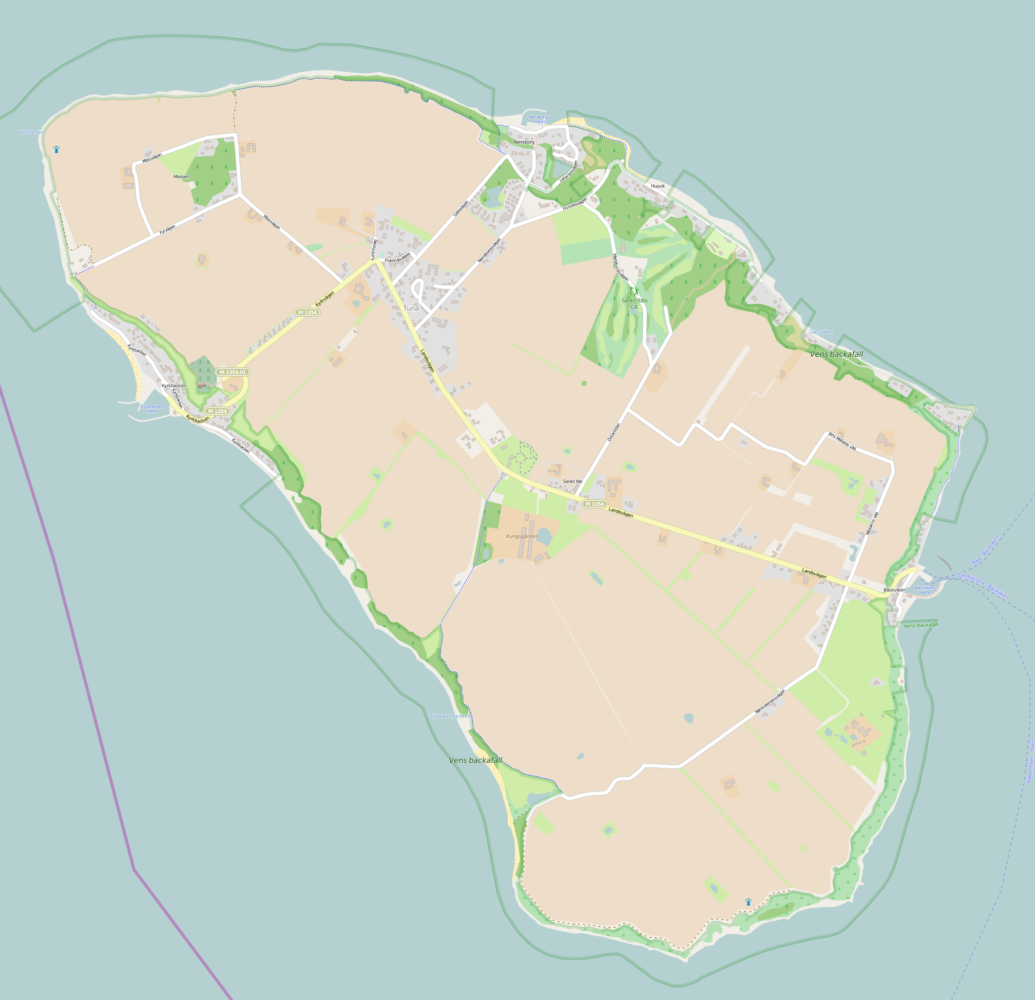 Map of Ven Island, Sweden